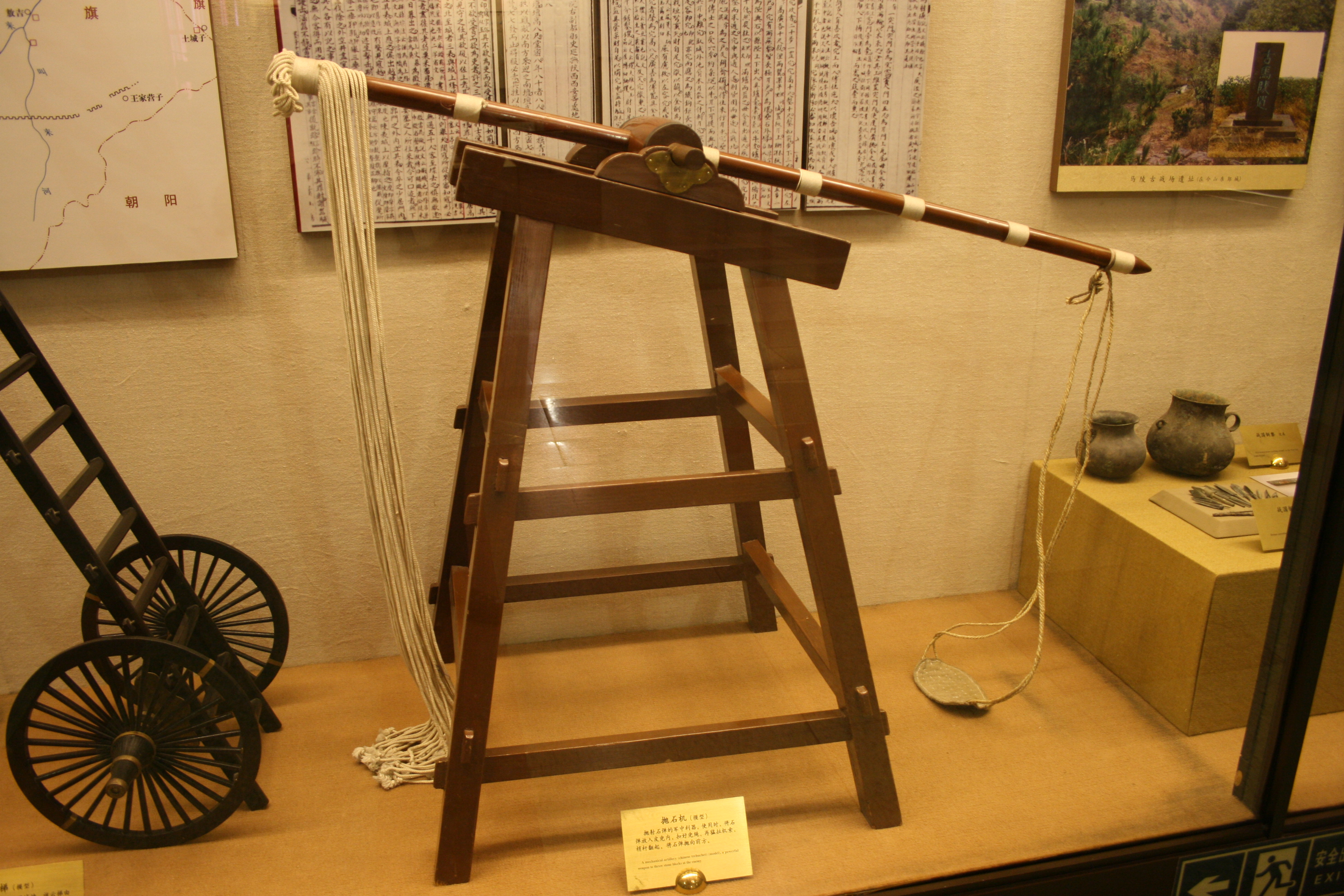 Military Museum: Ancient Weapons